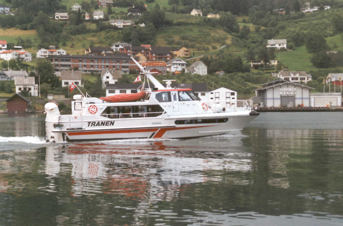 MS "Tranen" enroute Norheimsund - Odda (Norway) early in the 1990's.